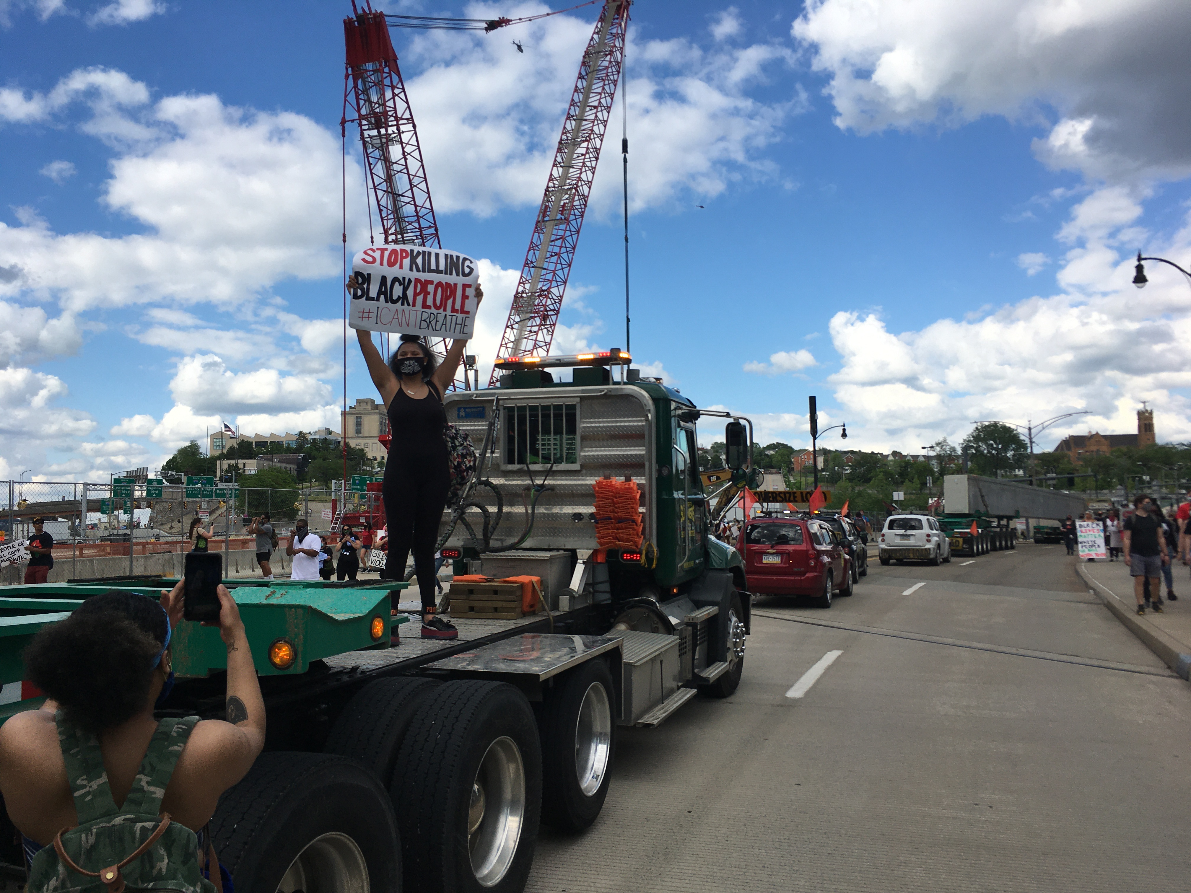 Protest in Pittsburgh, Pennsylvania, against the killing of George Floyd